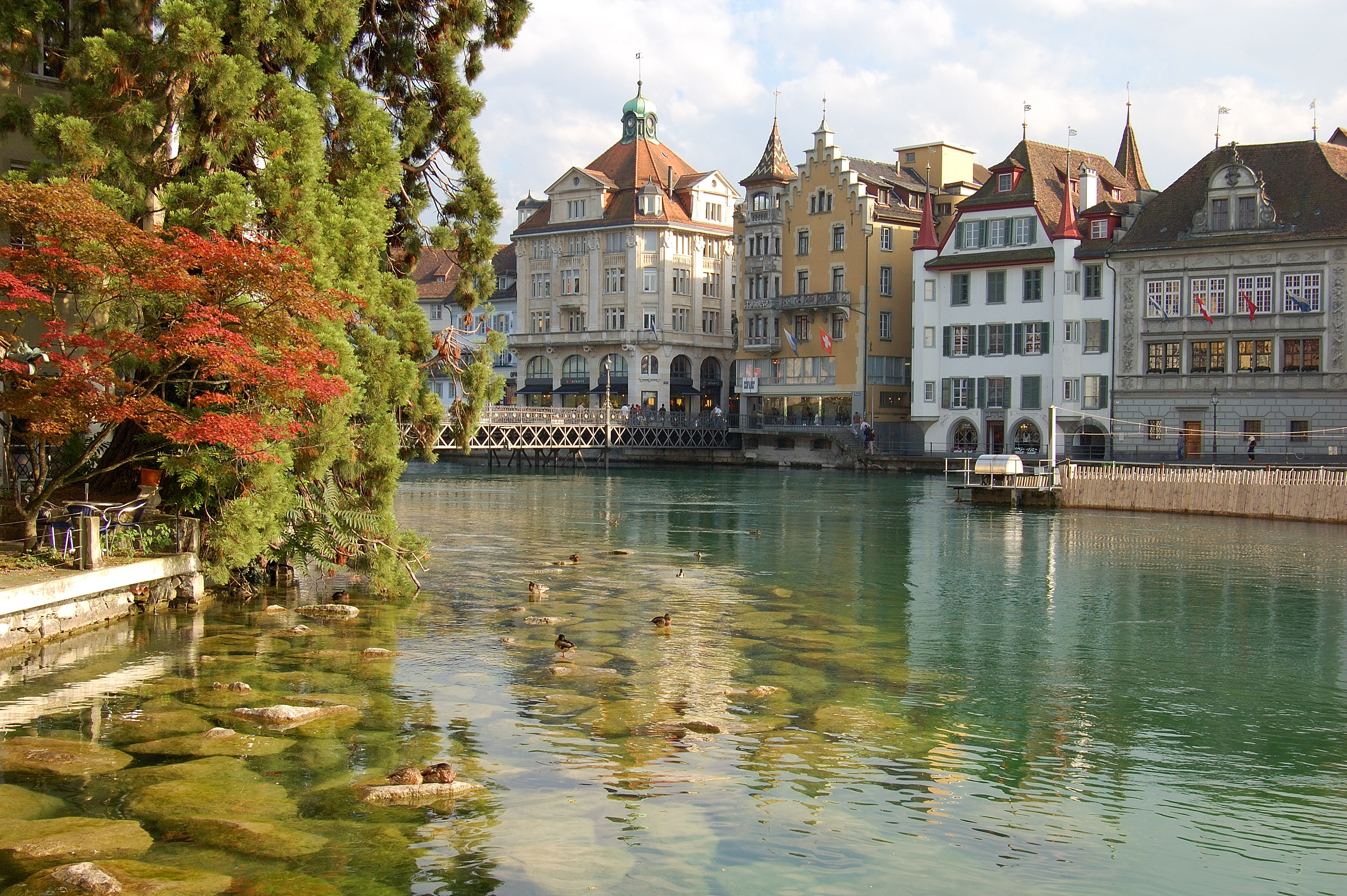 The river Reuss in the old part of Lucerne/Switzerland